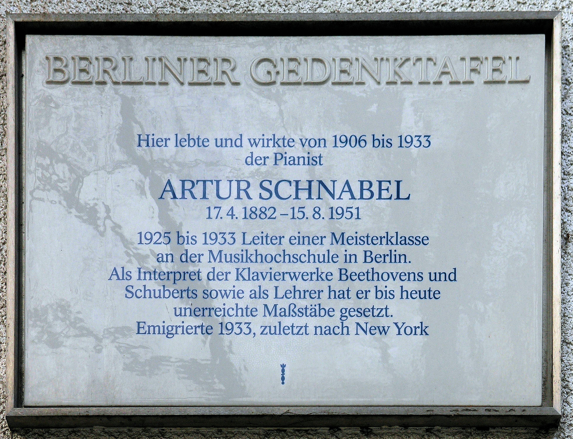 Berlin memorial plaque, Artur Schnabel, Wielandstraße 14, Berlin-Charlottenburg, Germany Koordinate:52°30′12.2″N 13°18′55.2″E / 52.503389°N 13.315333°E